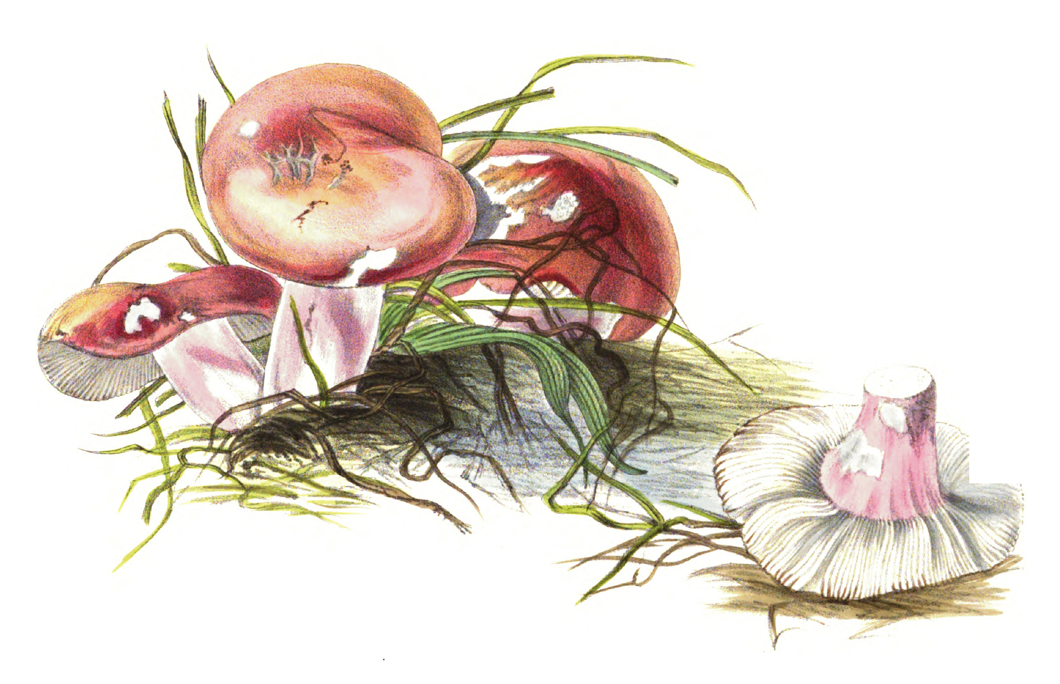 Illustration of Russula lepida